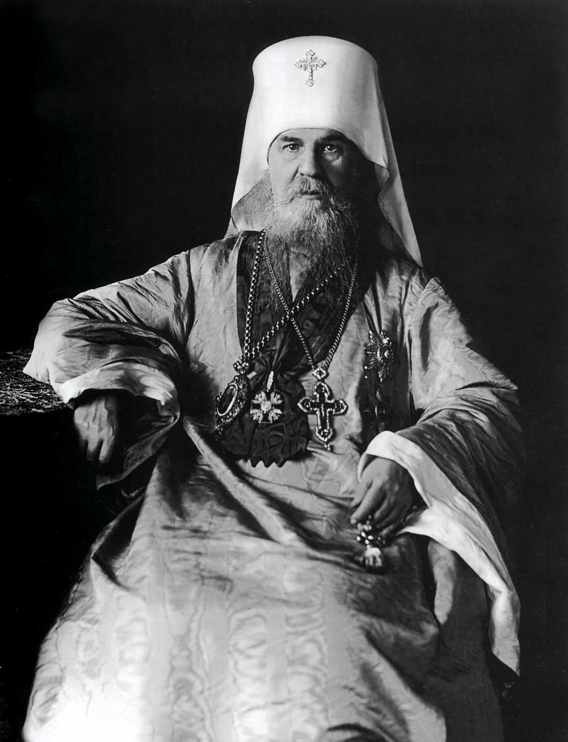 Metropolitan Pallady of Petersburg and Ladoga, the priest who administered May 14, 1896, coronation of Nicholas II.